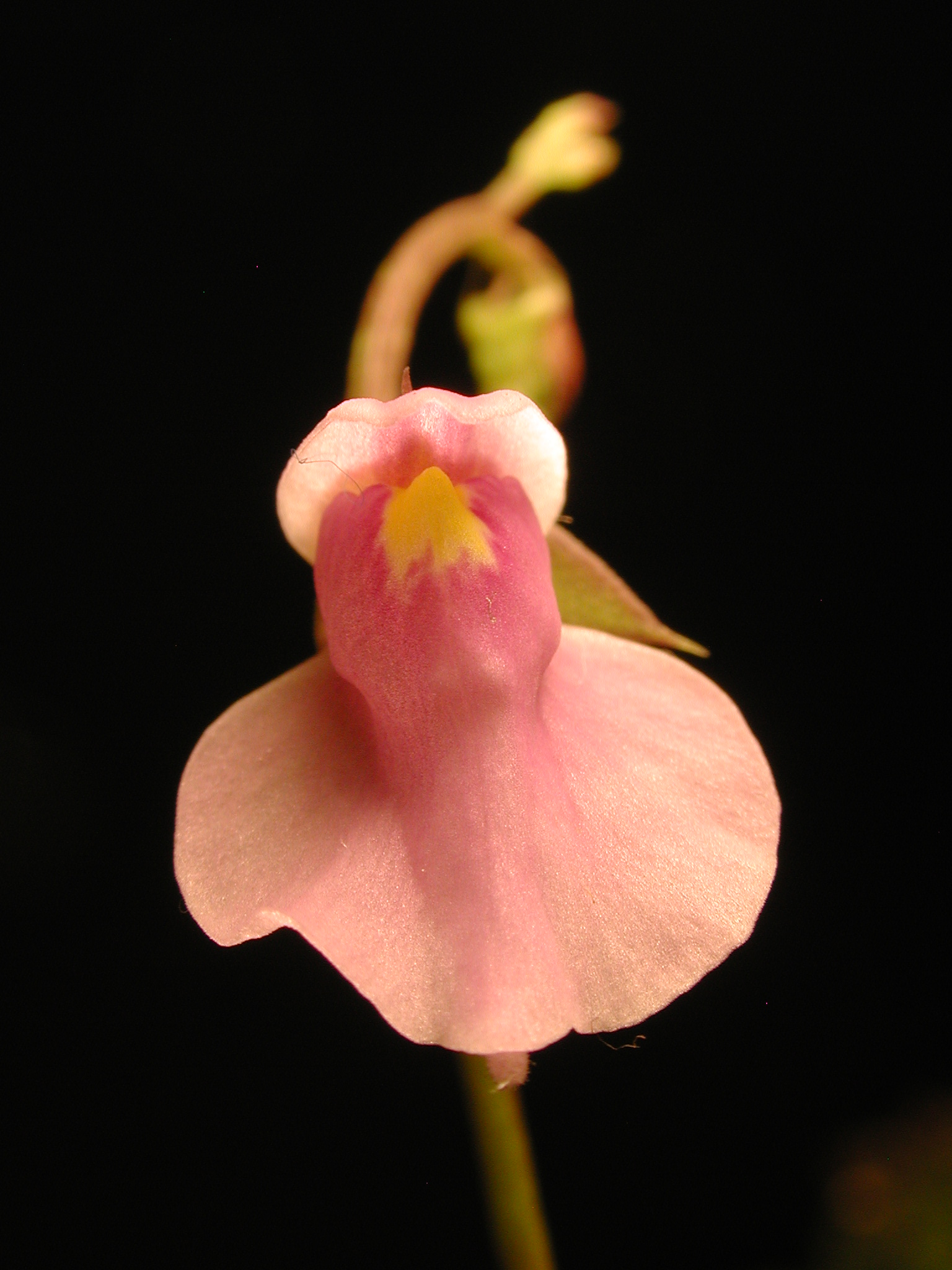 Flower of carnivorous Utricularia calycifida (en) from front. Size of the flower is about 0.5cm (macro)